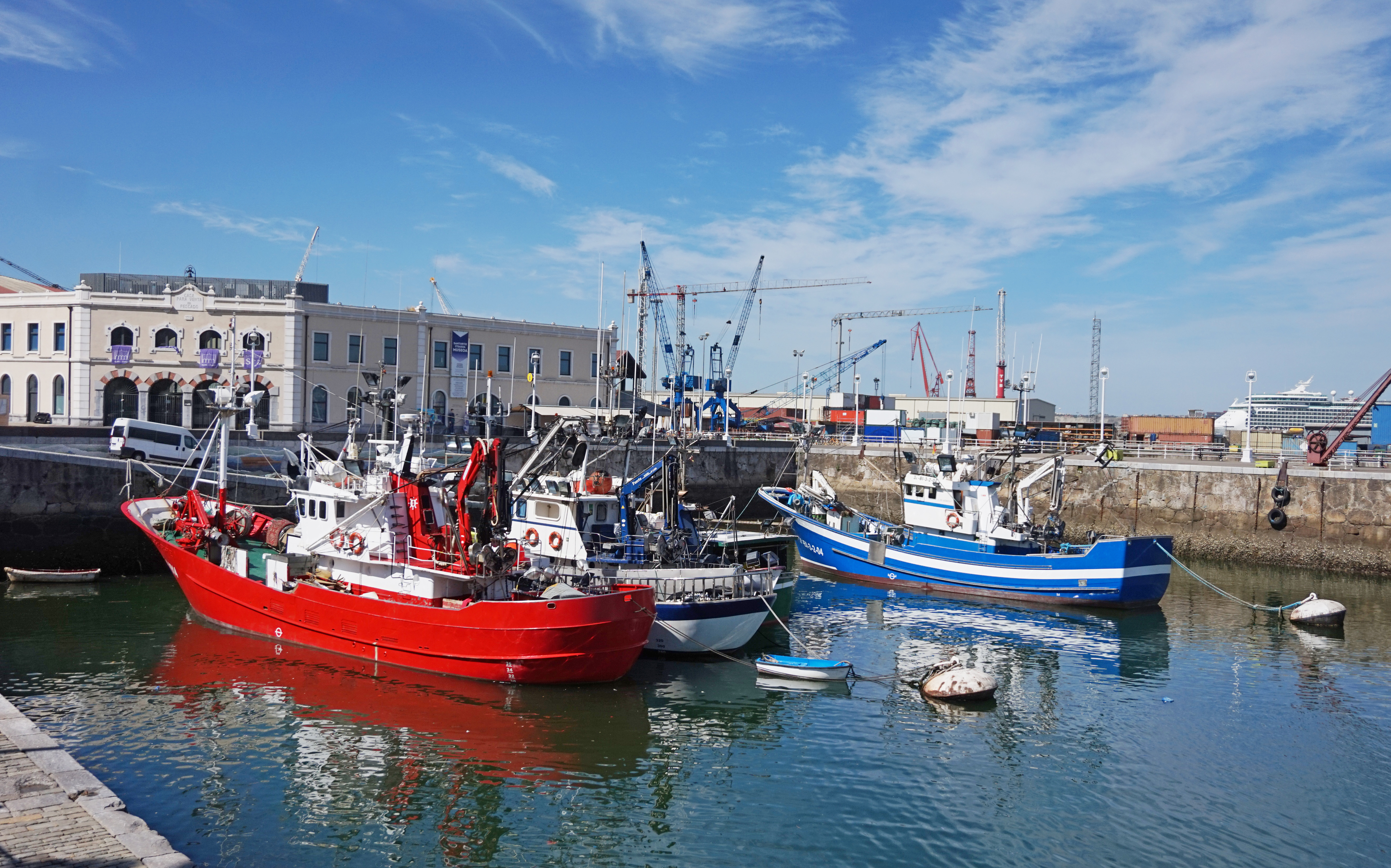 Santurtzi, Spain.This photograph was taken with a Sony ILCE-5000